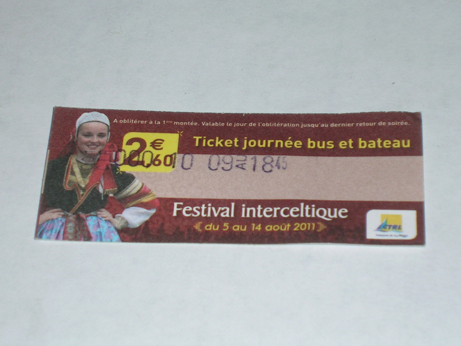 Bus ticket from the Lorient transport company during the Festival Intercerltique